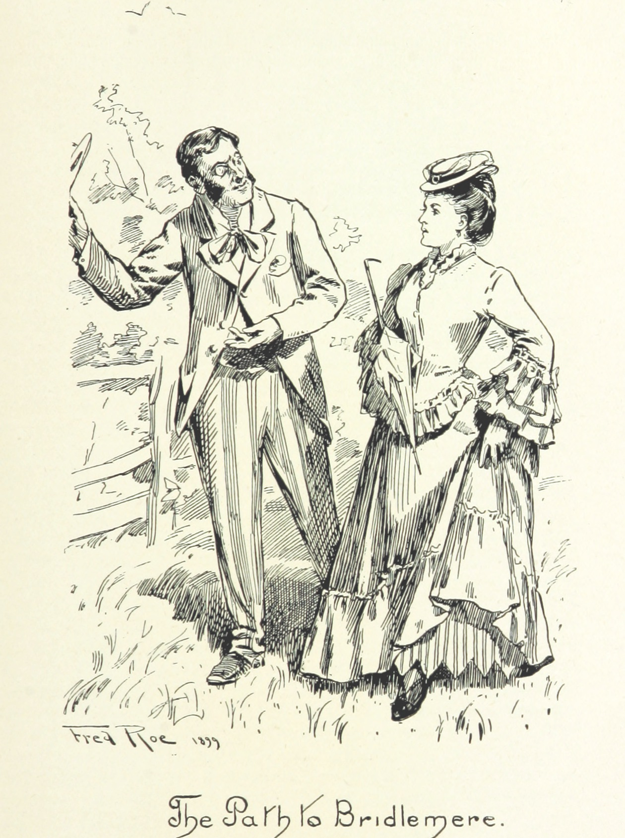 "The Works of G. J. Whyte-Melville. Edited by Sir H. Maxwell. [With illustrations by J. B. Partridge, Hugh Thomson, and others.]"